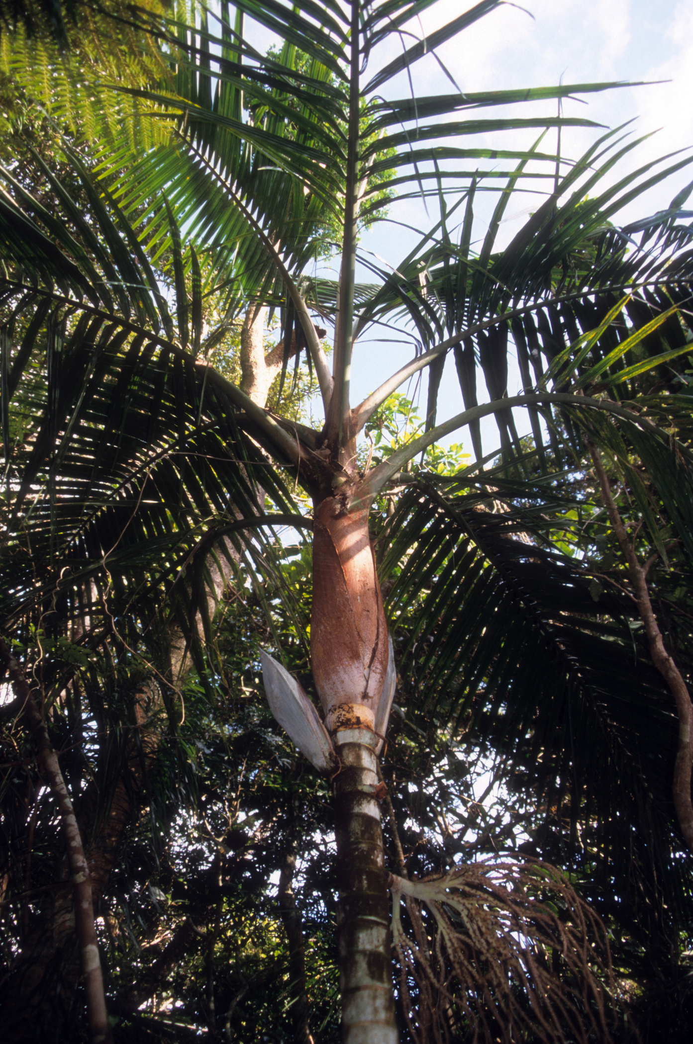 Cyphophoenix alba, Mt. Panié, New Caledonia. 11 Oct 2000.